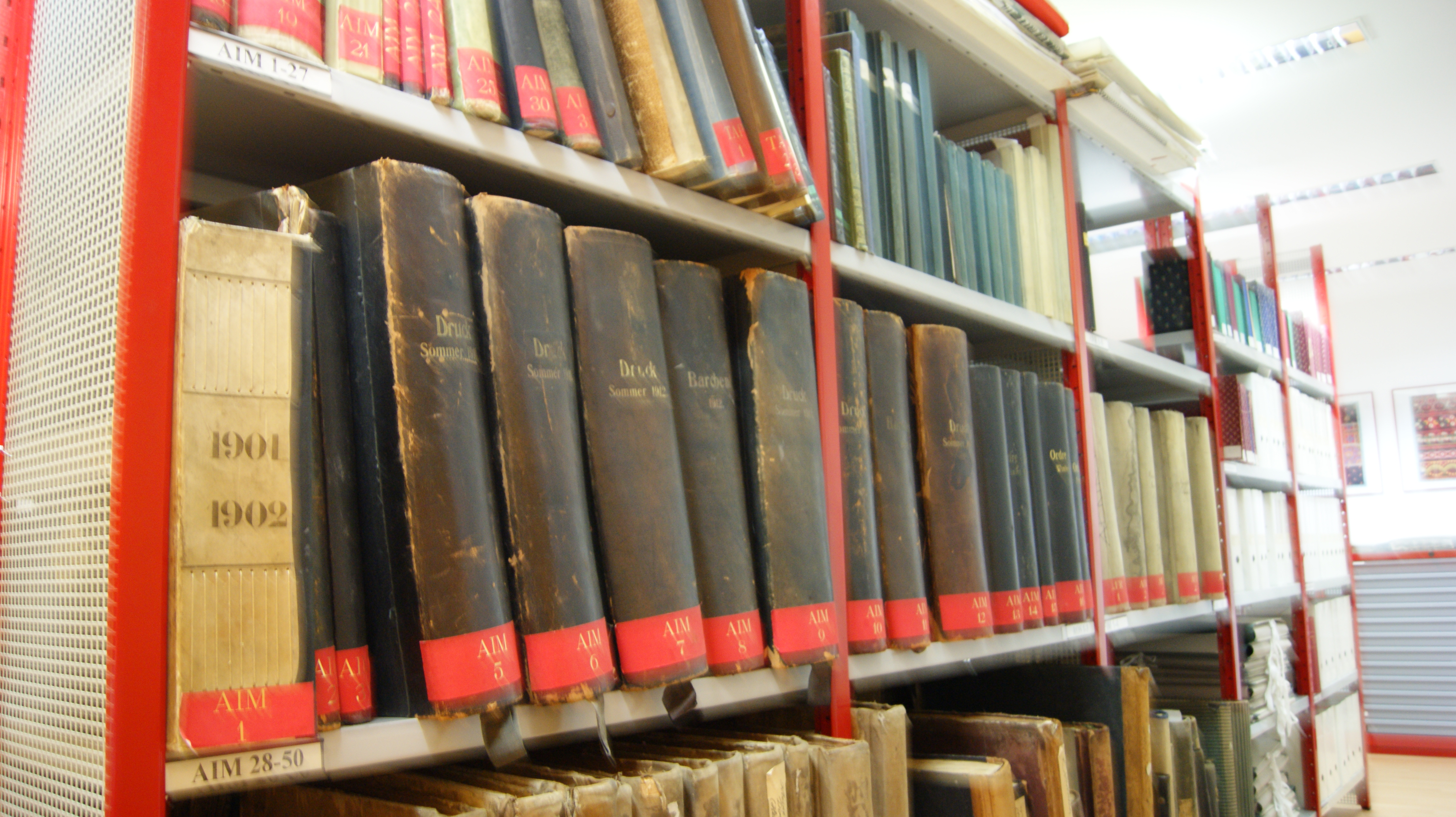 Textile patterns-archive in Dornbirn, Vorarlberg, Austria. Pattern books.